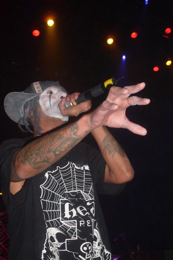 Taken @ the November 21 show in Reno NV with the Kottonmouth Kings.